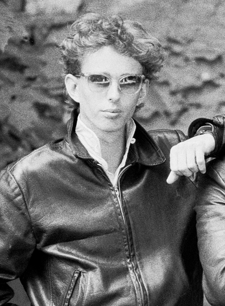 VRalf Örn in Kill City